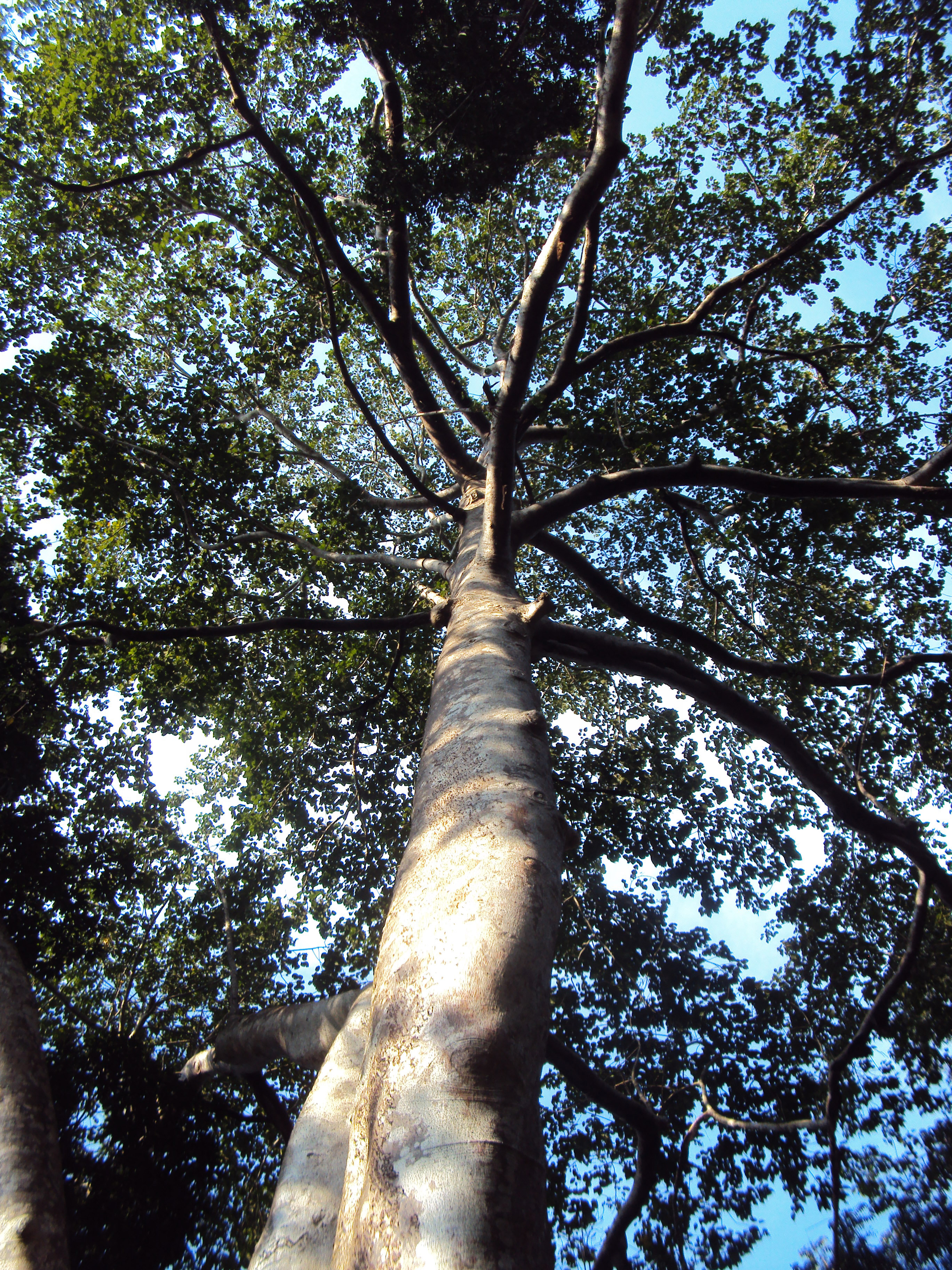 Tetrameles nudiflora - ചീനിമരം